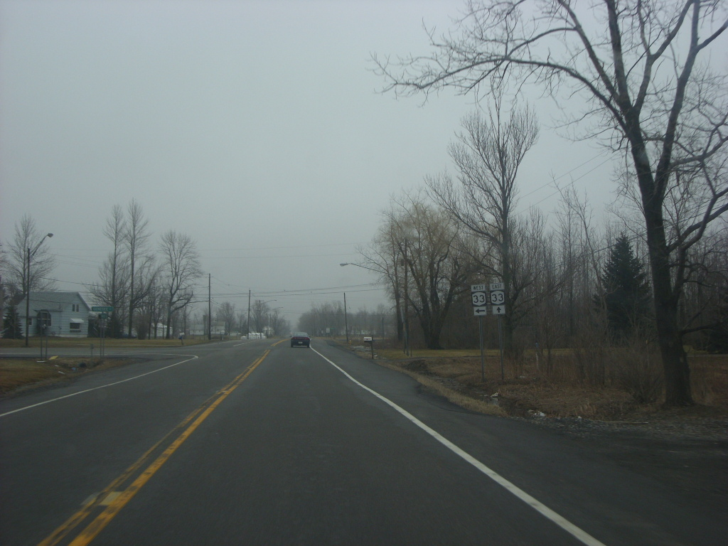 Eastbound on Walden Avenue (unsigned New York State Route 952Q) at New York State Route 33 in Alden. NY 33 enters from the left on Genesee Street and continues straight on the Walden Avenue right-of-way, which takes on the Genesee Street name.